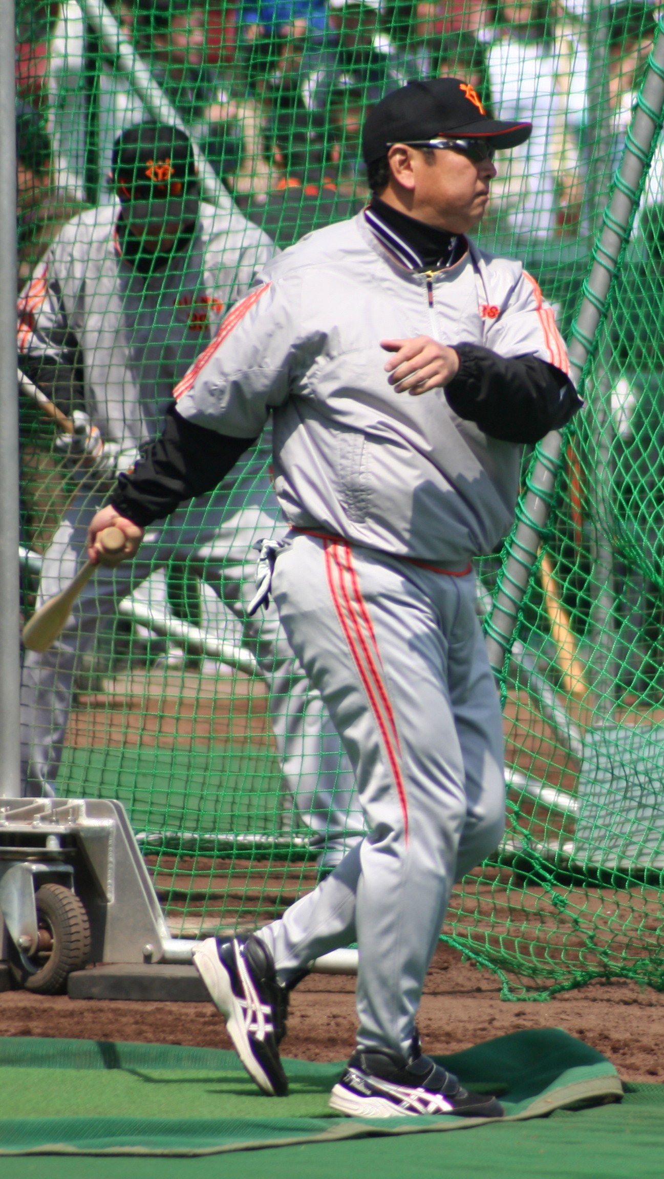 Sadaaki Yoshimura, coach of the Yomiuri Giants, at Mazda Stadium.